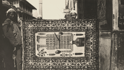 Mumbai